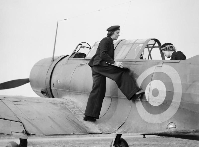 Two members of the Women's Royal Naval Service checking the cockpit equipment in a Vought Chesapeake Mk.I aircraft at Royal Naval Air Station Stretton (HMS Blackcap) in Cheshire, 4 March 1943. The Chesapeake was a British version of the Vought SB2U-3 Vindicator.